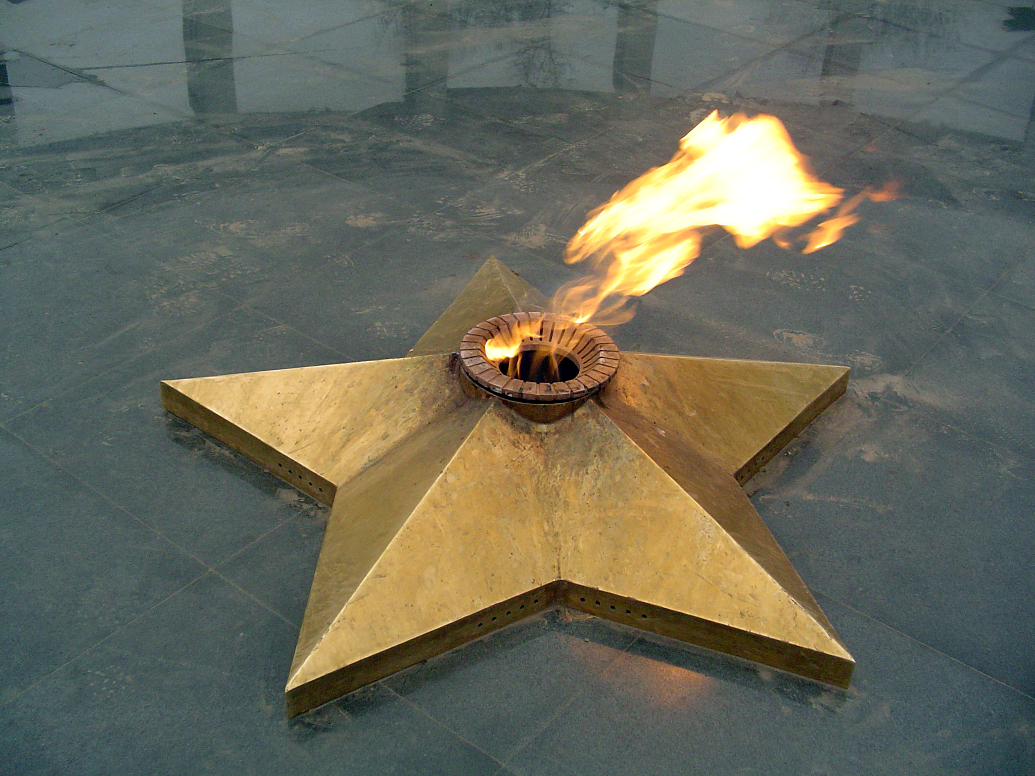 Pushkino city, Russia. Eternal fire